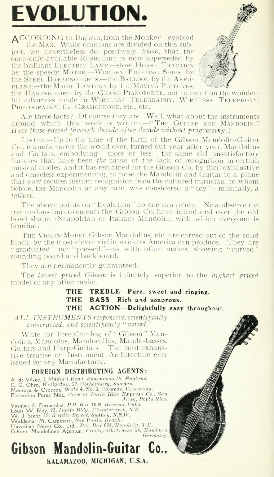 Advertisement for Gibson mandolin, taken from the book The guitar and mandolin, Biographies of celebrated players and composers for these instruments by Philip J. Bone, published by Schott and Company, London, 1914.